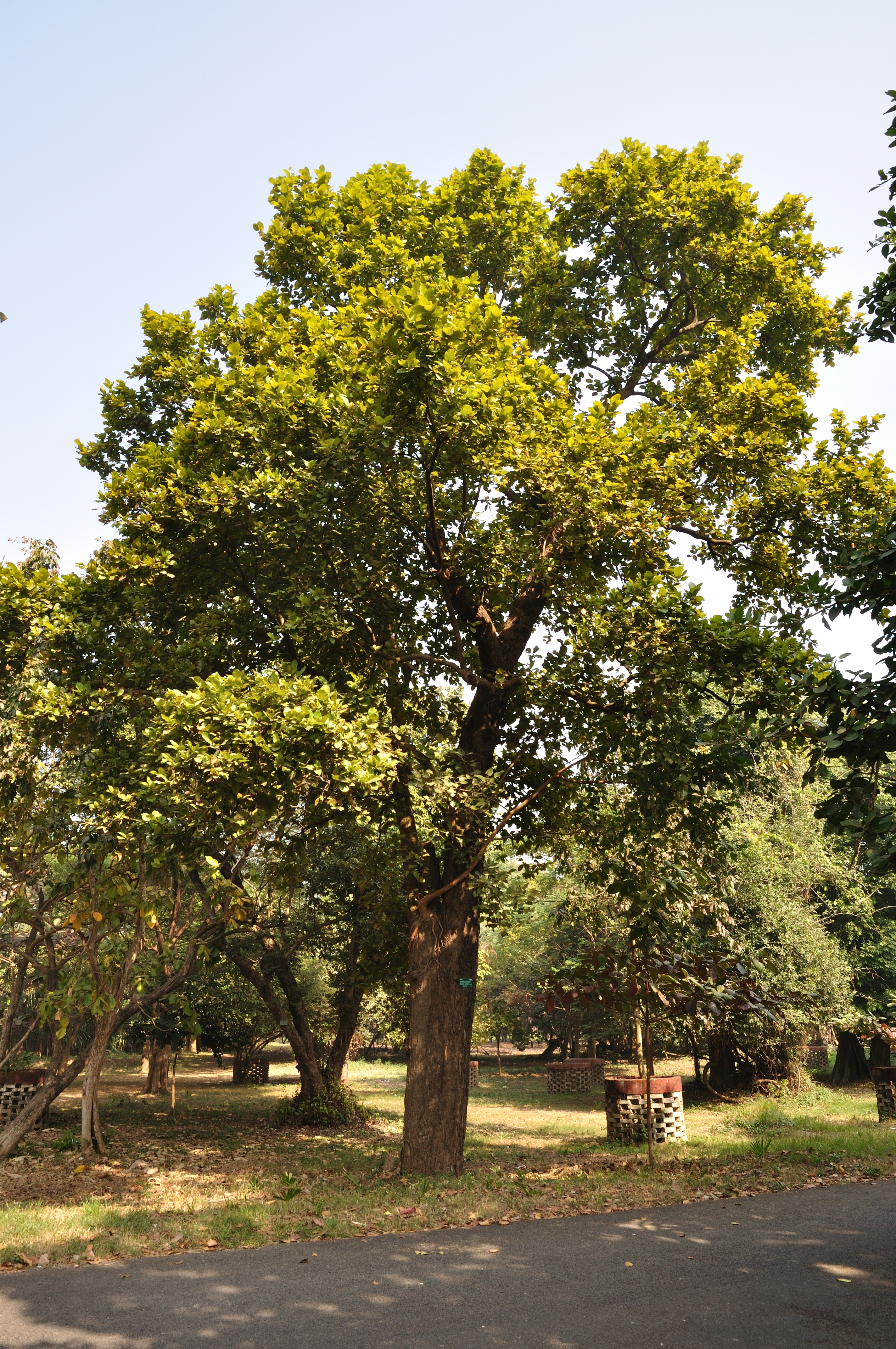 The botanical garden at Howrah, was known as ‘East India Company’s Garden’ or the ‘Company Bagan’ or ‘Calcutta Garden’ and later as the ‘Royal Botanic Garden’ which after independence was renamed as the ‘Indian Botanic Garden’ in 1950. It came under the management of the Botanical Survey of India on January 1, 1963. From June 25, 2009 it is renamed as ‘Acharya Jagadish Chandra Bose Indian Botanic Garden’.